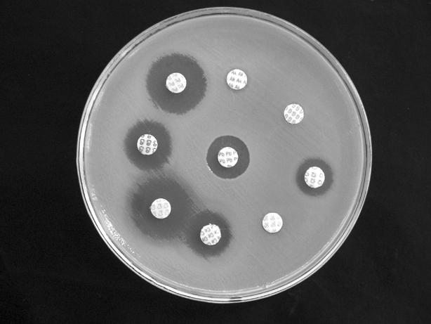 Antibiotic susceptibility testing by disk diffusion